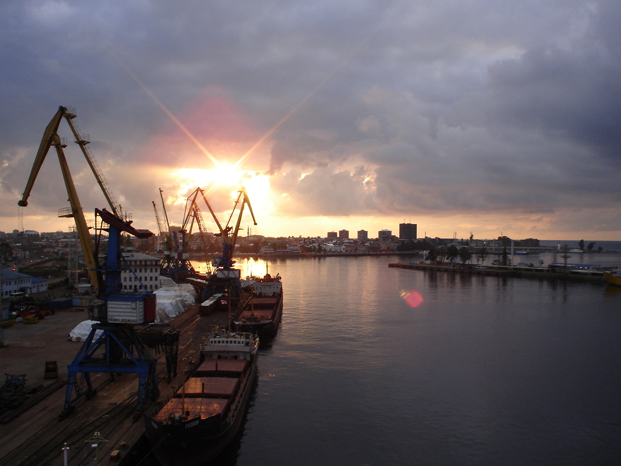 Port in Batumi